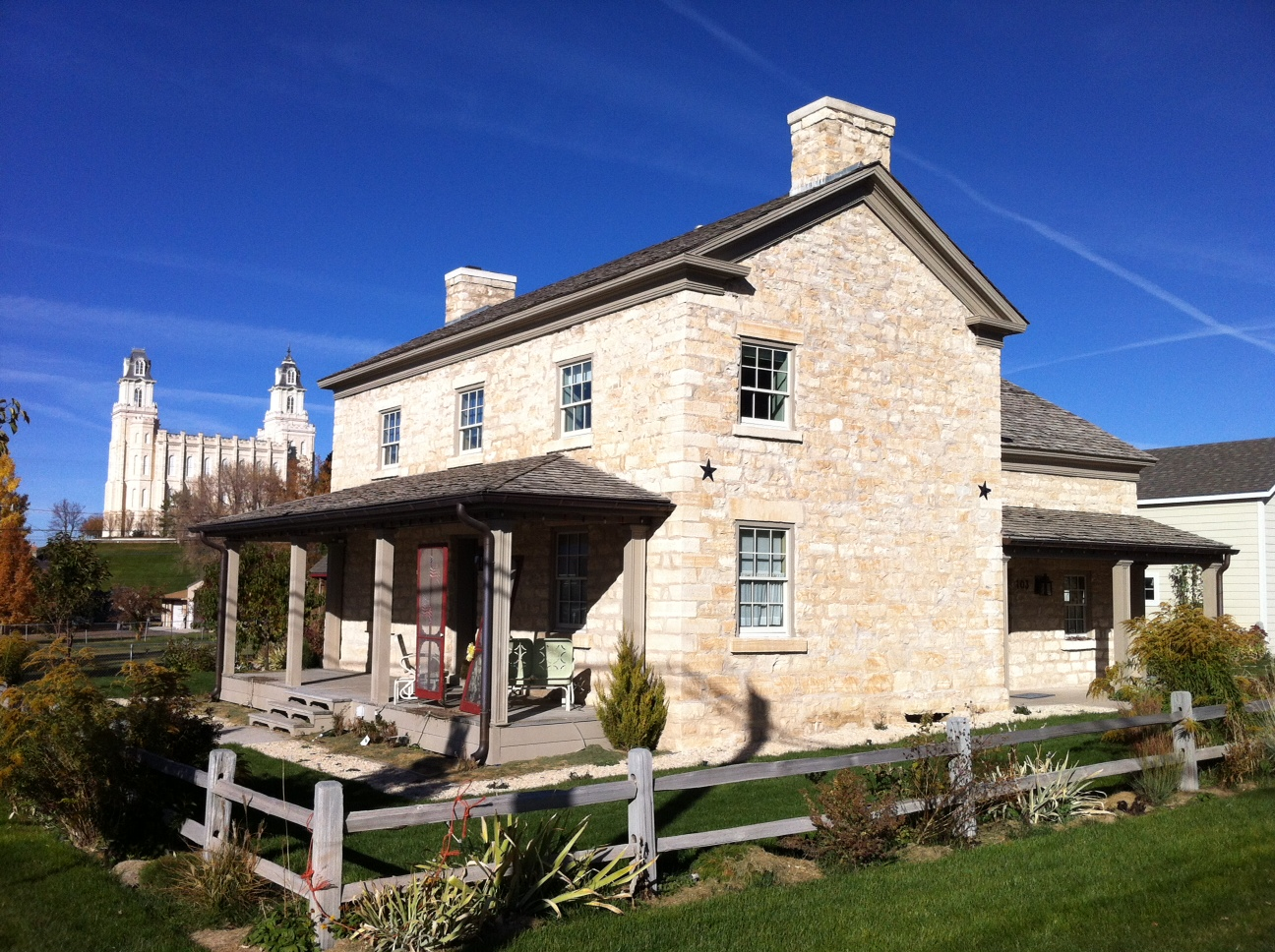 This is the original pioneer home built and lived in by Robert Johnson and his family in Manti, Utah. The Manti Utah Temple of The Church of Jesus Christ of Latter-day Saints is visible in the background.[1][2]